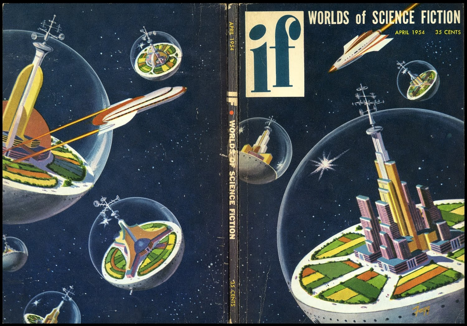 Wraparound cover of If, April 1954